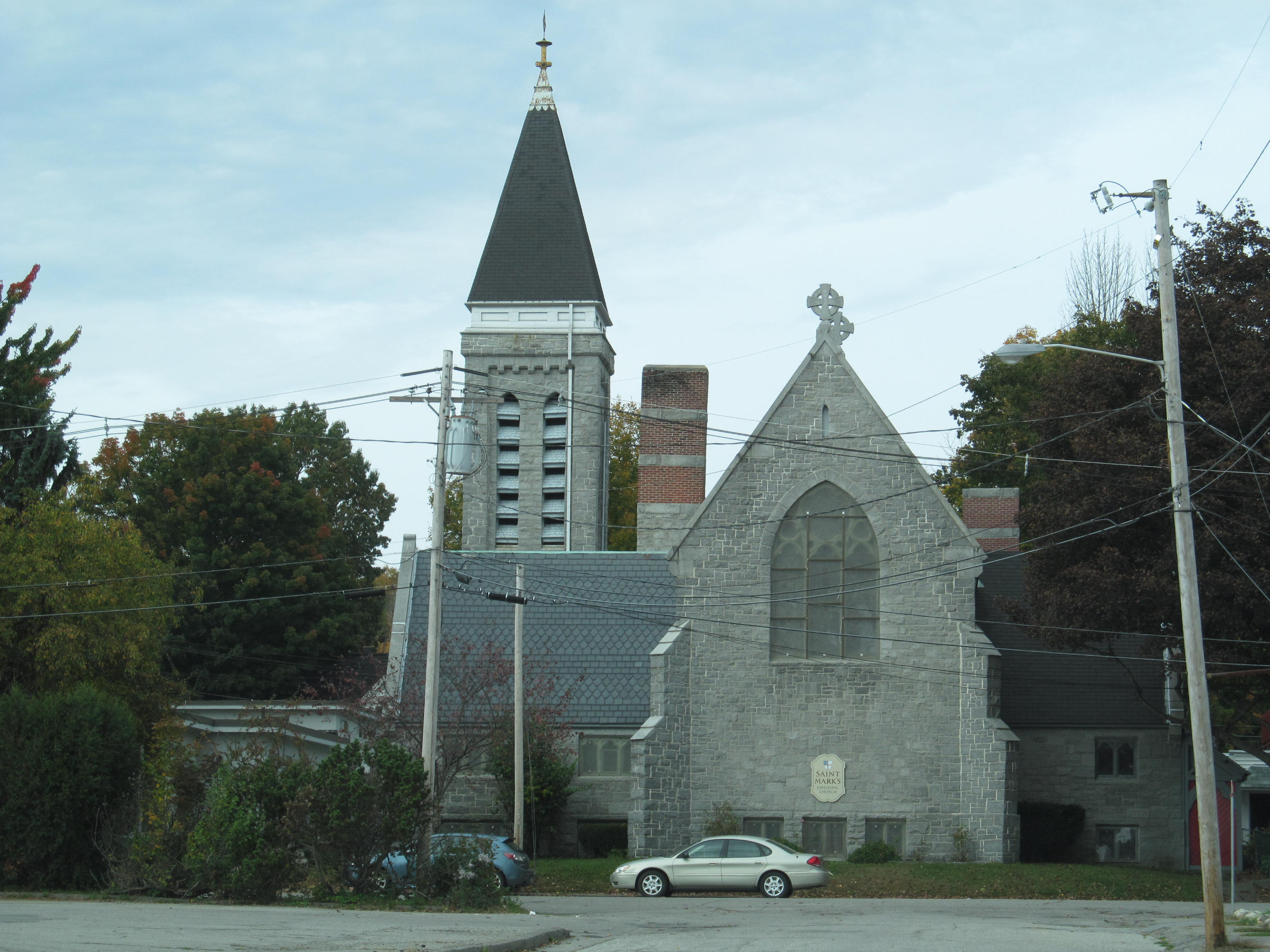 St. Mark's Episcopal Church, Augusta, Maine.